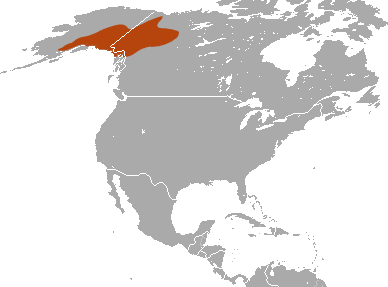 Collared Pika (Ochotona collaris) range